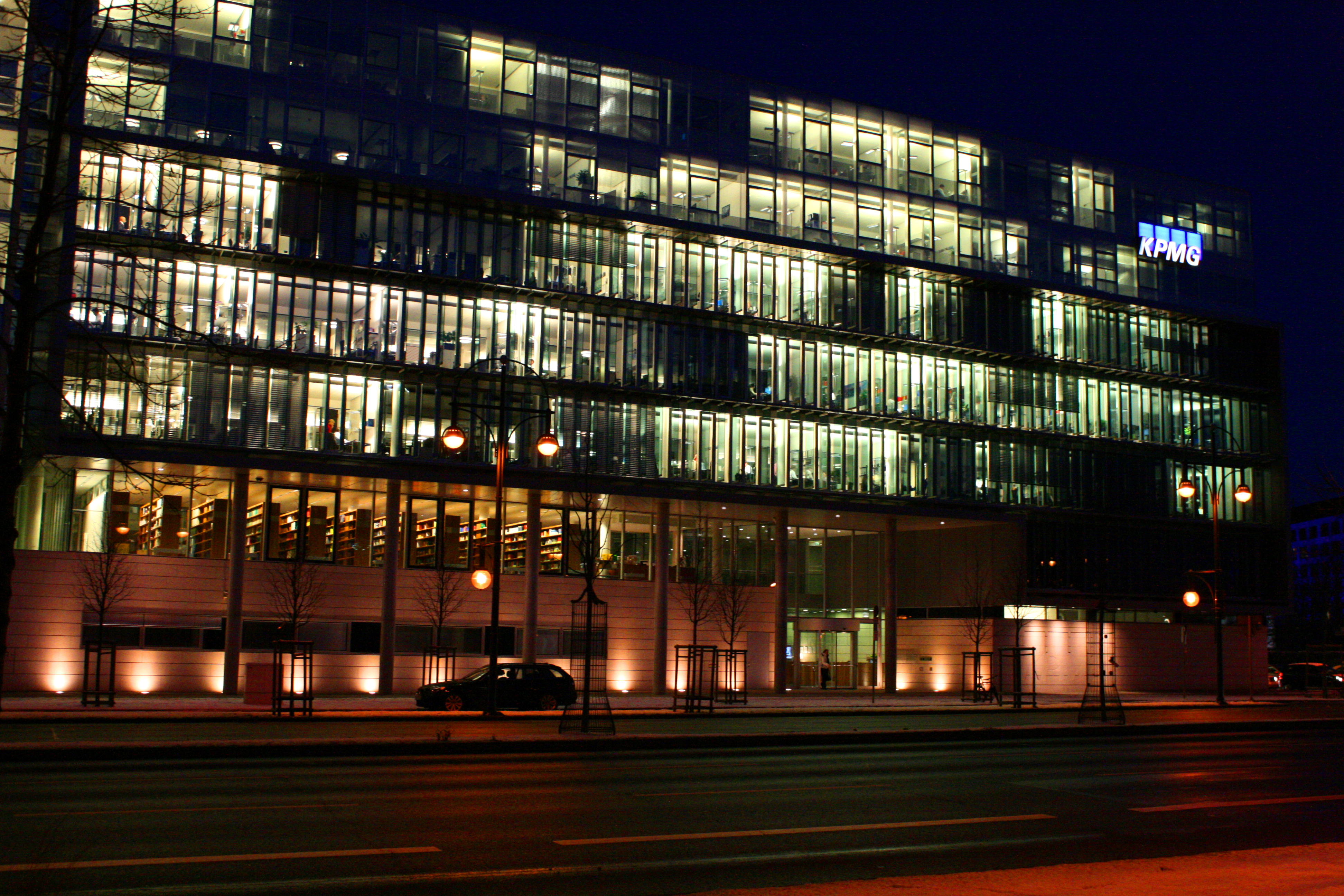 National Office (Germany) KPMG AG, Klingelhöferstraße, Berlin